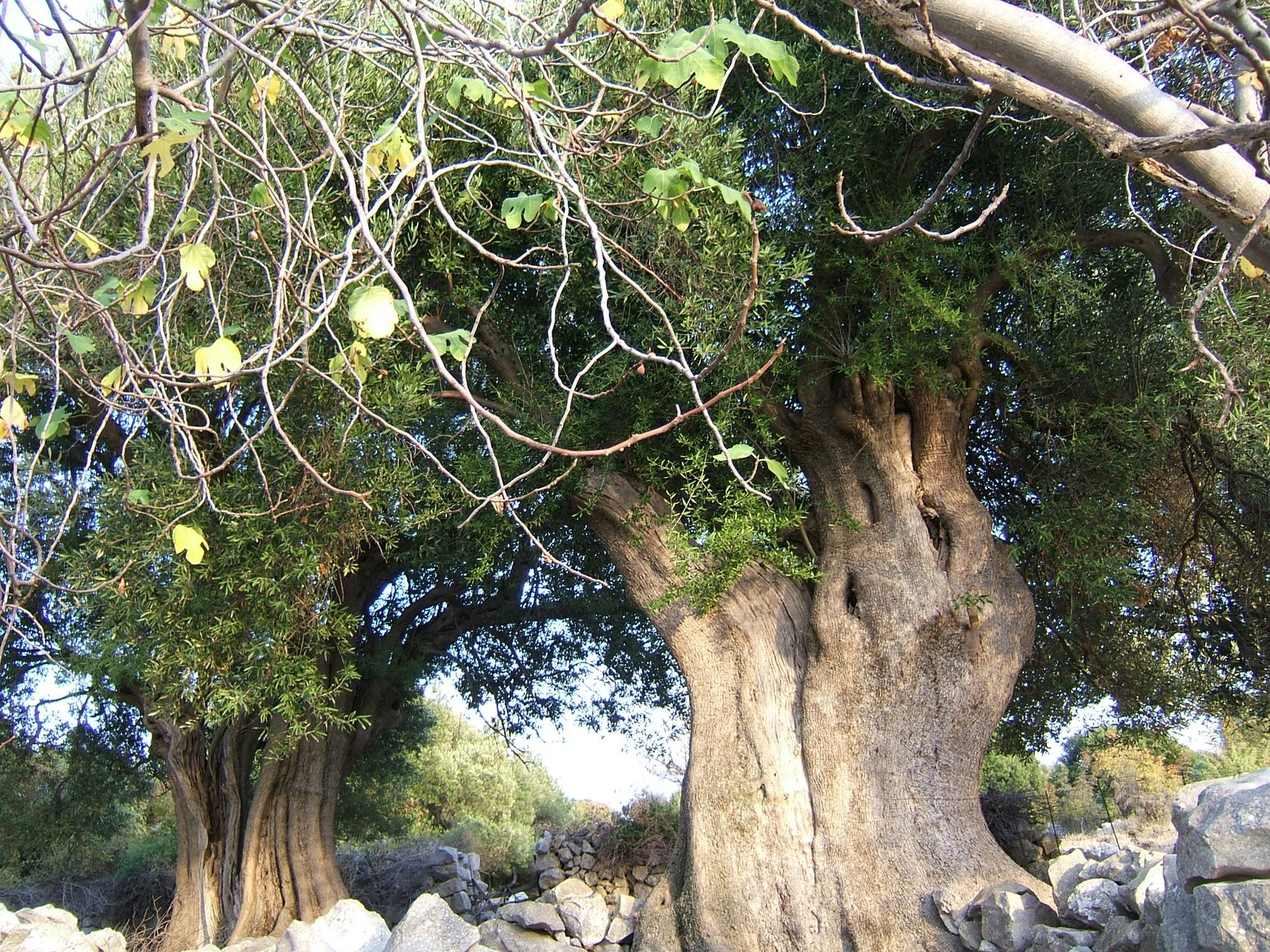 Park of the ancient olive trees in place Lun, Croatia.